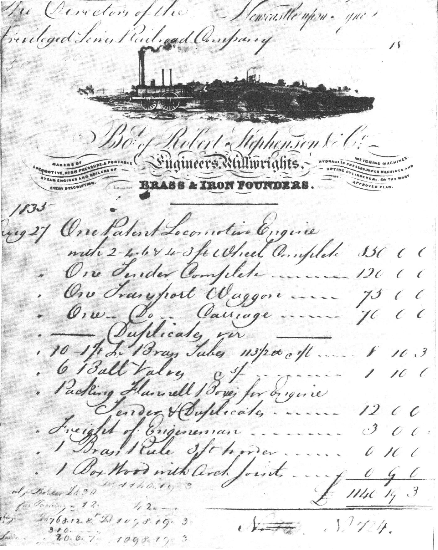 invoice for the first steam locomotive in Germany Adler of the Bavarian Ludwig Railway, made out from the locomotive manufacturer Robert Stephenson and Company